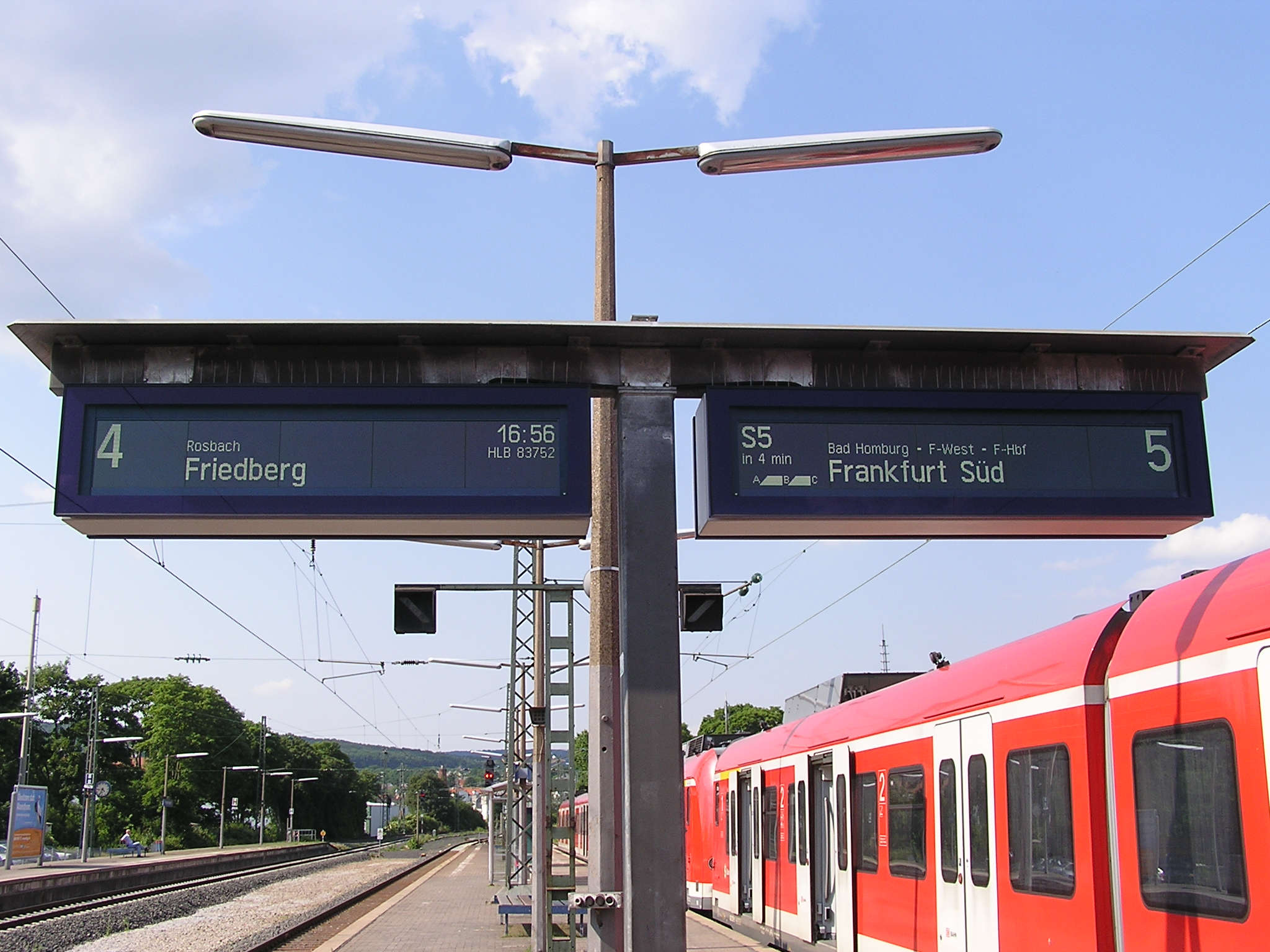 Destination display at the station Friedrichsdorf